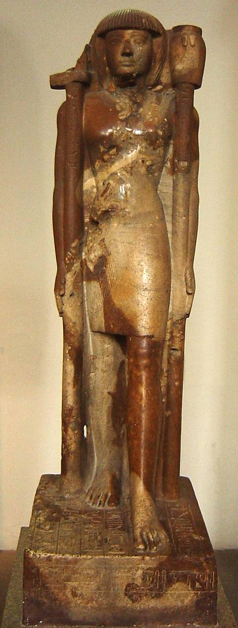 Sandstone statue of Khaemwaset, son of Ramesses II and High Priest of Ptah at Memphis. 13th century B.C. (near 1260 B.C.). British Museum, Ground Floor - Section 04.